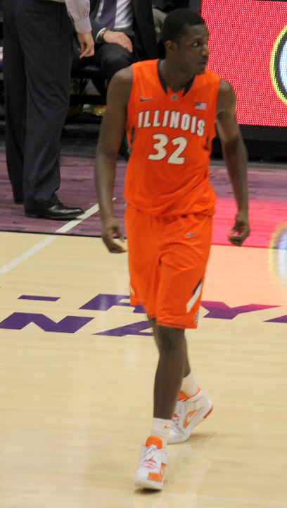 Nnanna Egwu of the Illinois Fighting Illini at Welsh-Ryan Arena in Evanston, Illinois, on January 4, 2012.